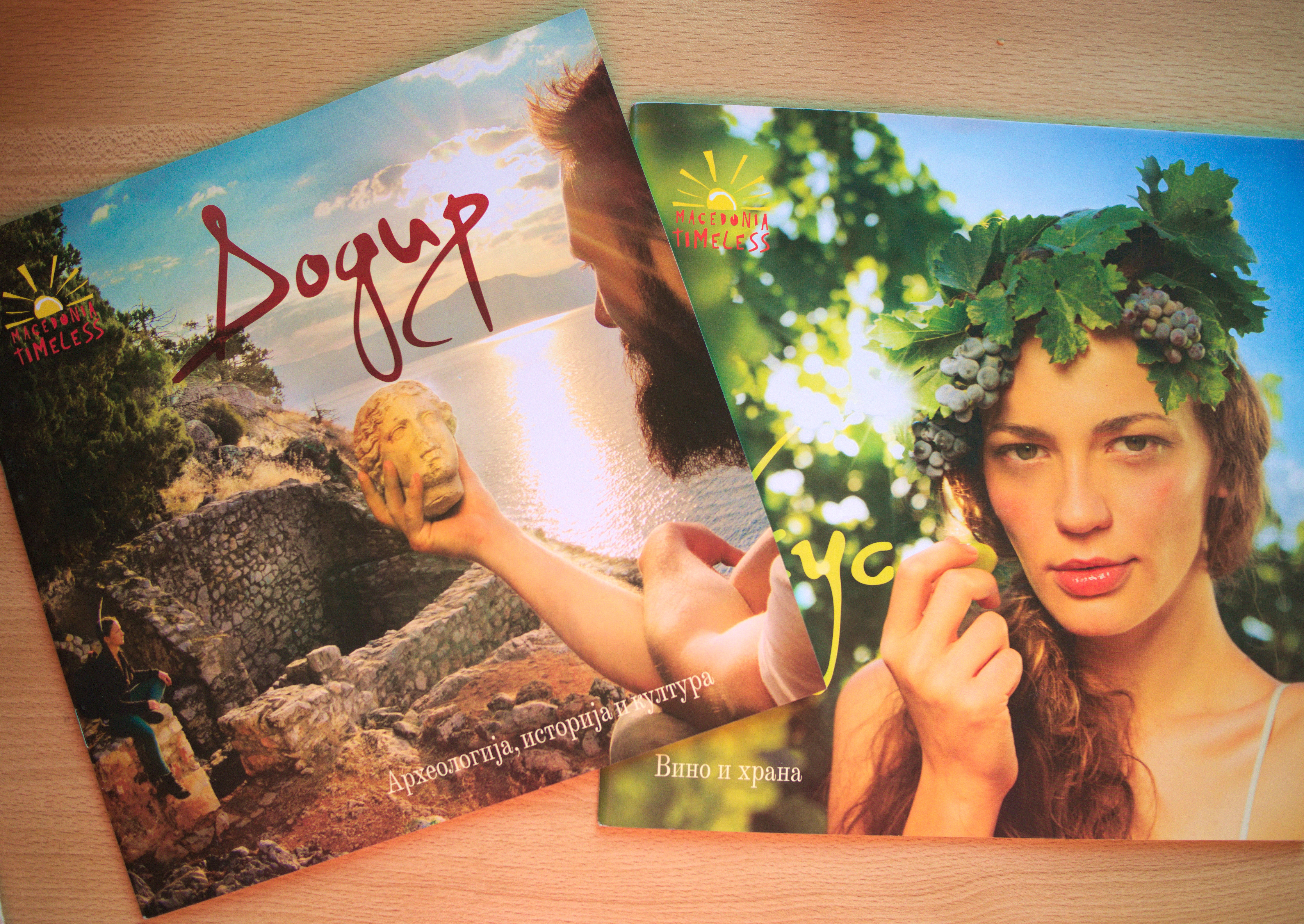 Macedonia Timeless, Serbian Tourism Fair 2017